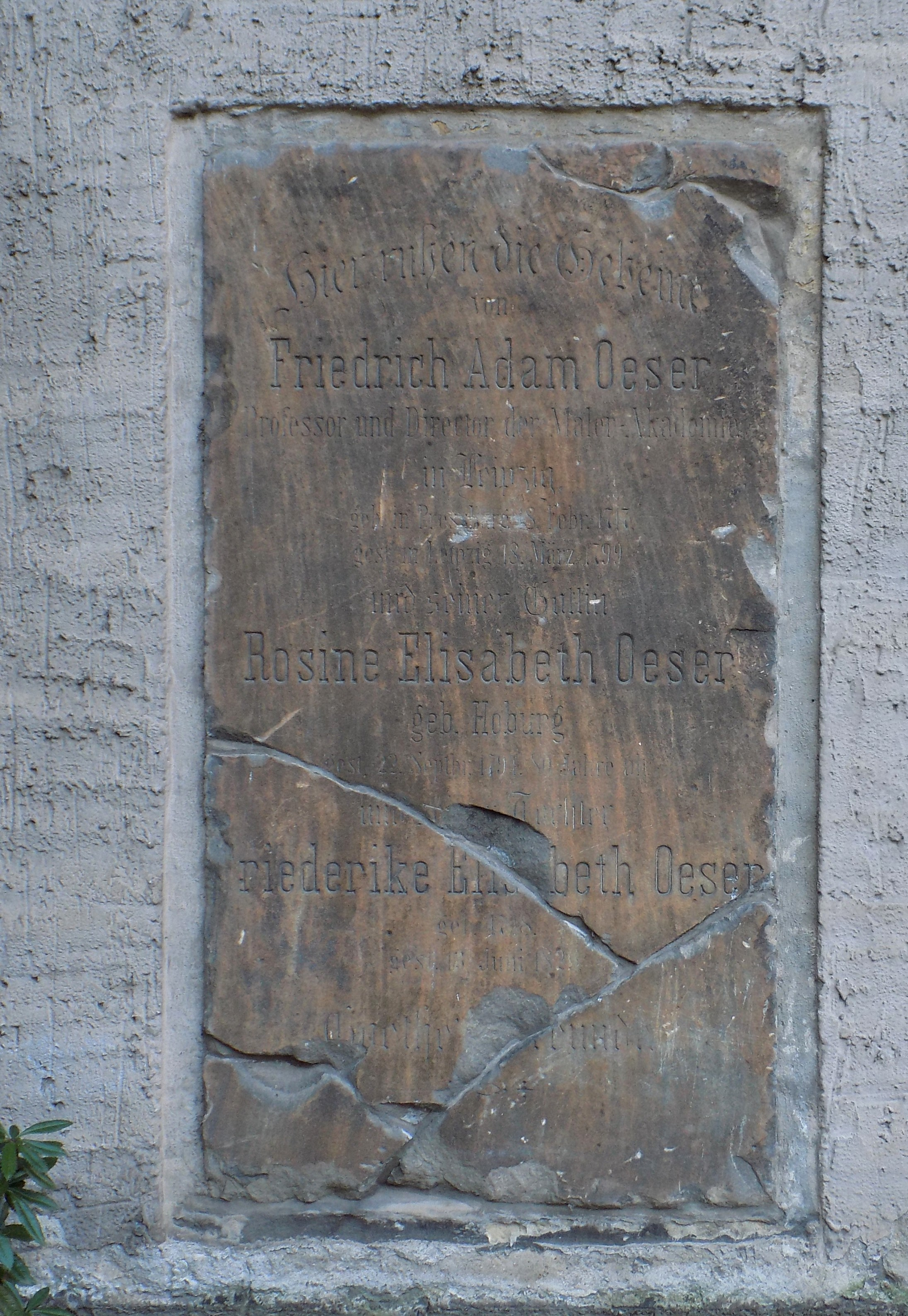 St. Nicholas Church in Leipzig (Saxony), gravestone of Adam Friedrich Oeser